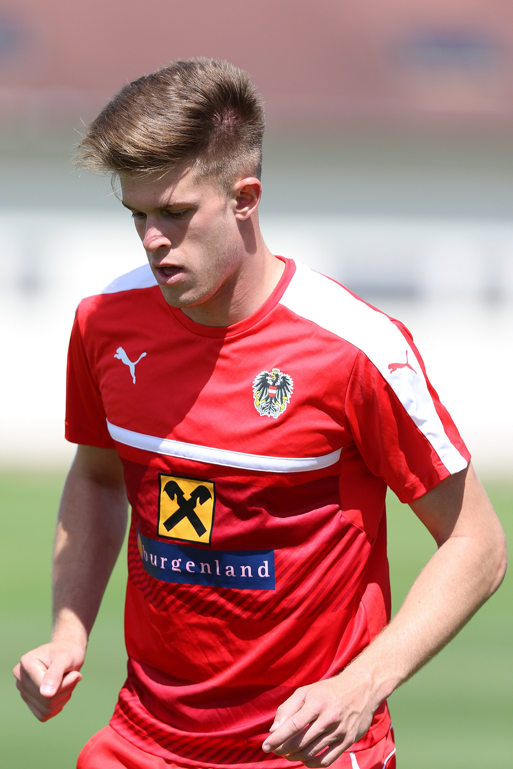 Teamcamp of the Austrian U-21 national football team in June 2017 in Bad Erlach. – The photo shows Marko Kvasina (FK Austria Wien)